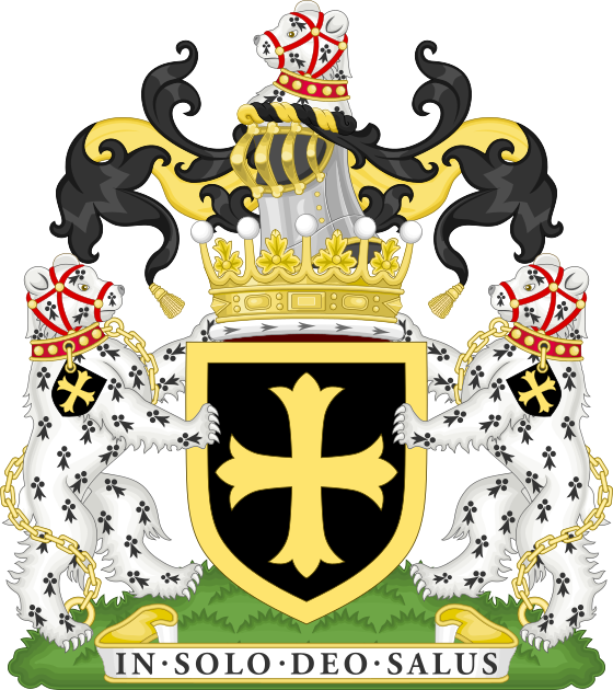 coat of arms of the earl of Harewood Arms. Sable a Cross Patonce within a Bordure Or. Crest. A Bear's Head couped at the neck Ermine muzzled Gules buckled Or collared of the second rimmed and studded Gold. Supporters. On either side a Bear Ermine, muzzled and collared Gules, buckled and chained, the Chain reflexed over the back Or, the collar studded and rimmed Gold, and pendent therefrom an Escutcheon Sable charged with a Cross Patonce also Gold . Motto. In Solo Deo Salus (In God alone is our salvation). Cracroft's Peerage